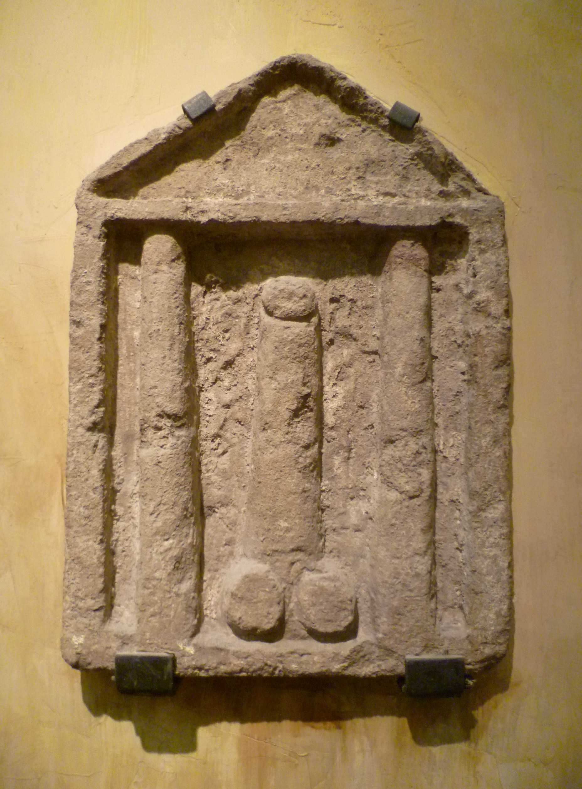 Phallus set in a small temple (carved of tuff), from Pompeii, c.1-50 AD